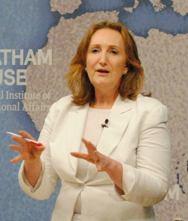 Suzanne Evans speaking at a Chatham House Special Debate: "Should Britain Leave the EU?"